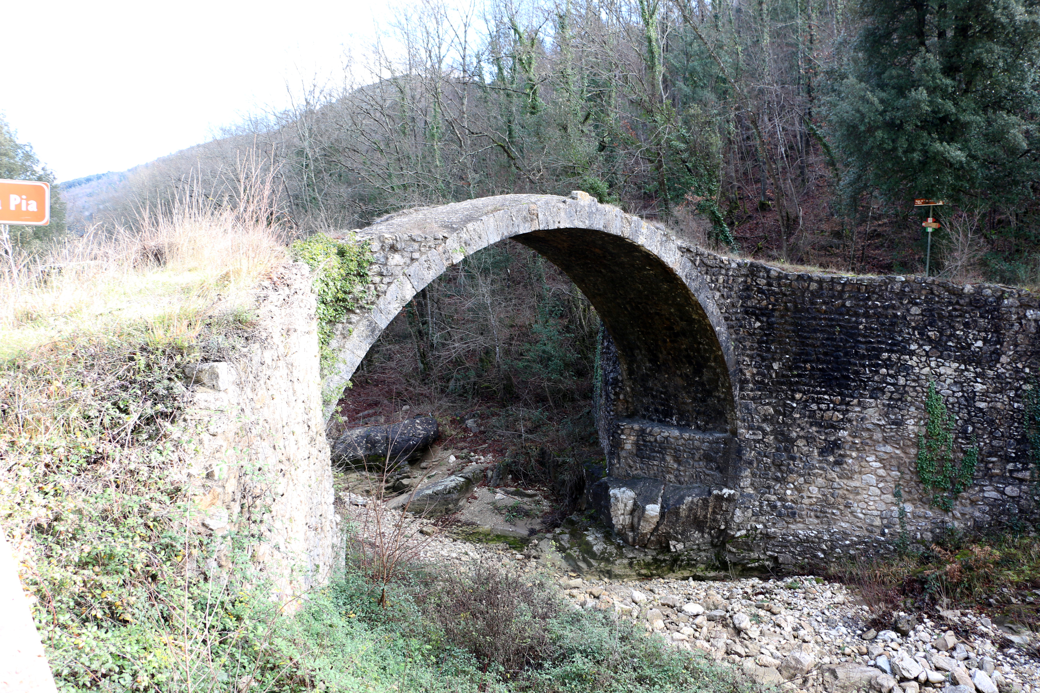 Ponte della Pia (Rosia, Sovicille)